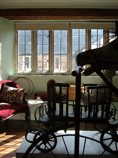 Elizabethan Museum, Totnes. The Victorian nursery, with a courtyard through the window.